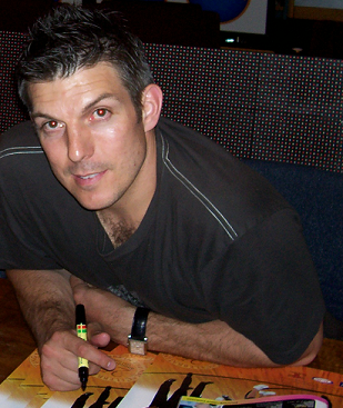 I took this picture myself on 11th February 2007 at Challenge Stadium in Perth Western Australia.